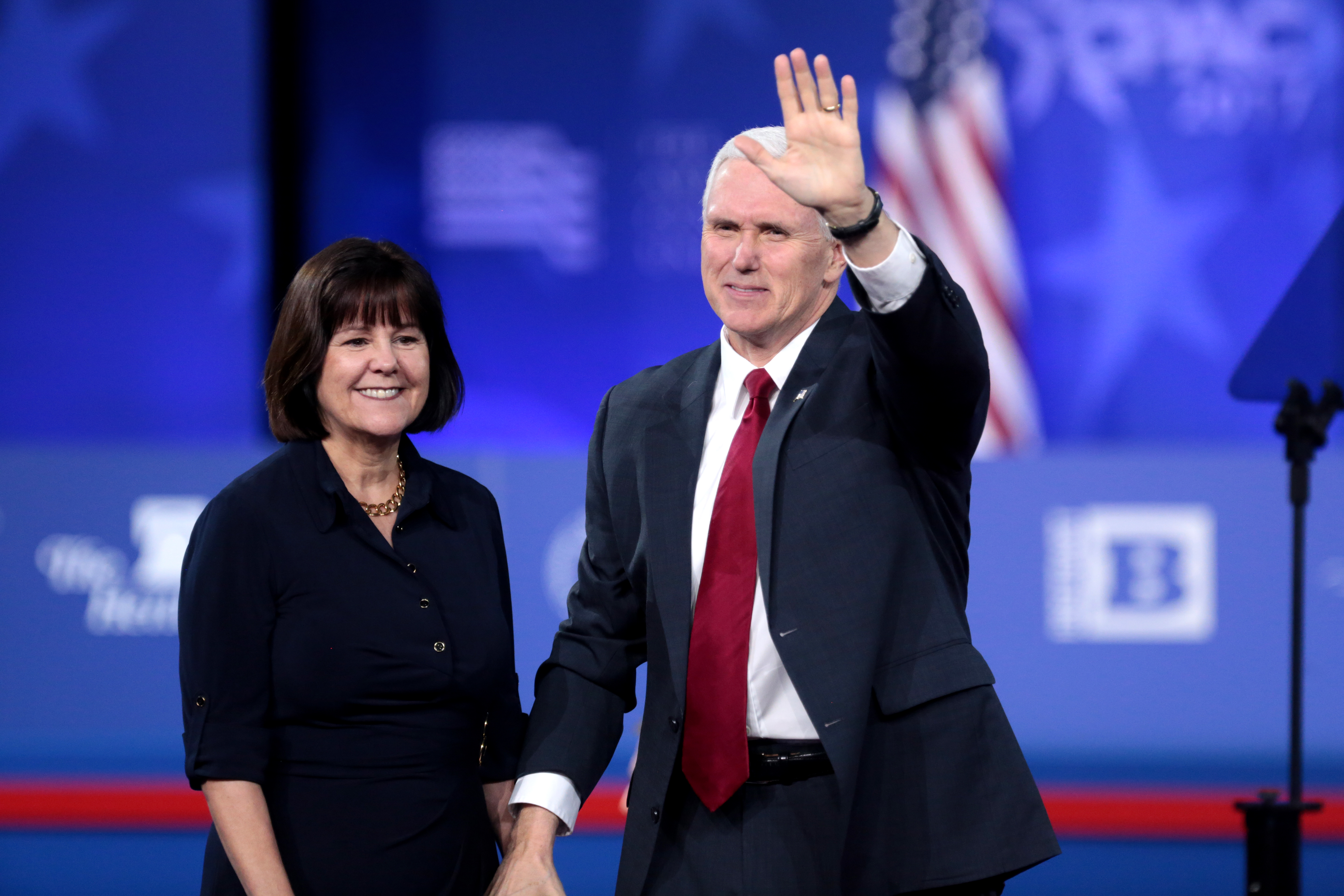 Second Lady Karen Pence and Vice President of the United States Mike Pence speaking at the 2017 Conservative Political Action Conference (CPAC) in National Harbor, Maryland.